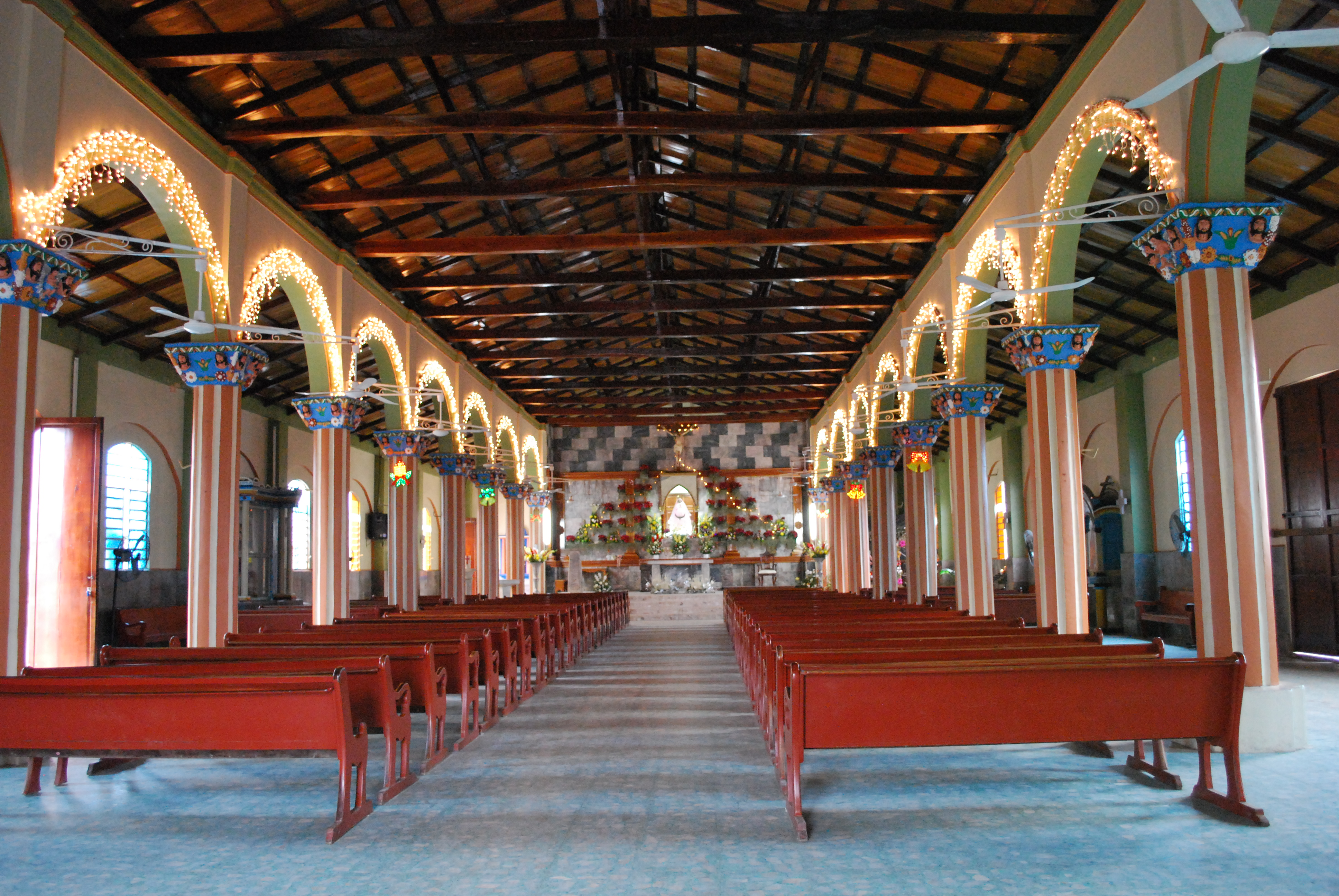 Nave of the Virgen de la Asunción Church in Cupilco, Tabasco